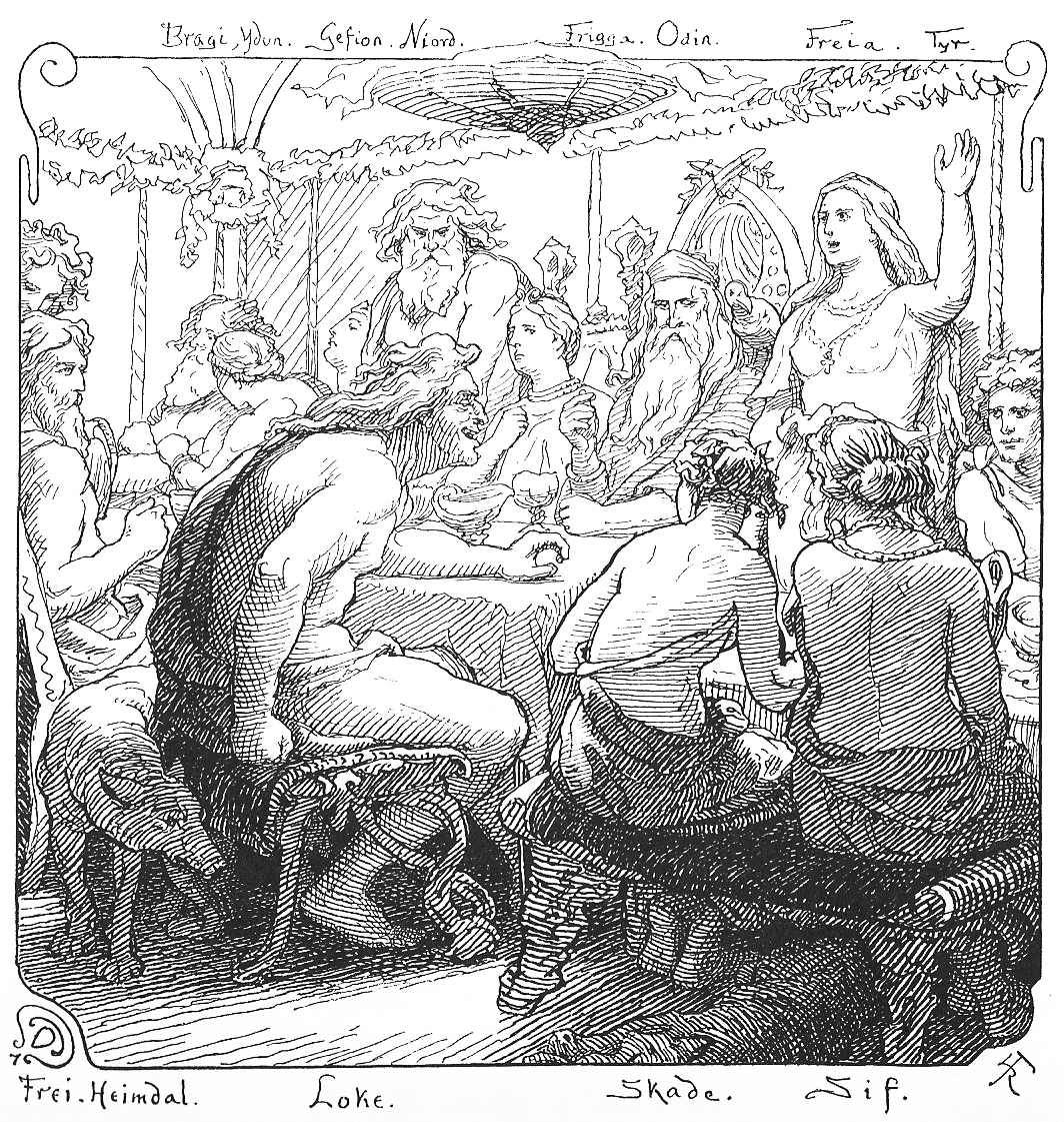 A depiction of Norse gods assembled as in the Poetic Edda poem Lokasenna (1895) by Lorenz Frølich.